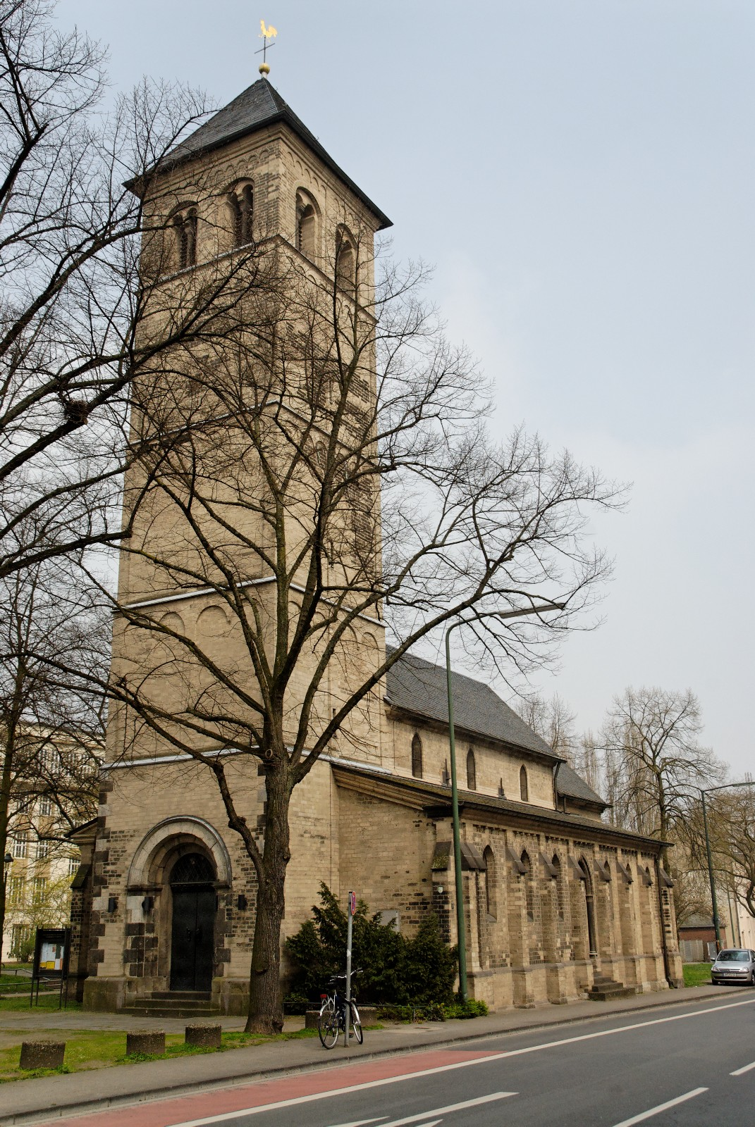 Old Saint Martin in Düsseldorf-Bilk, Germany